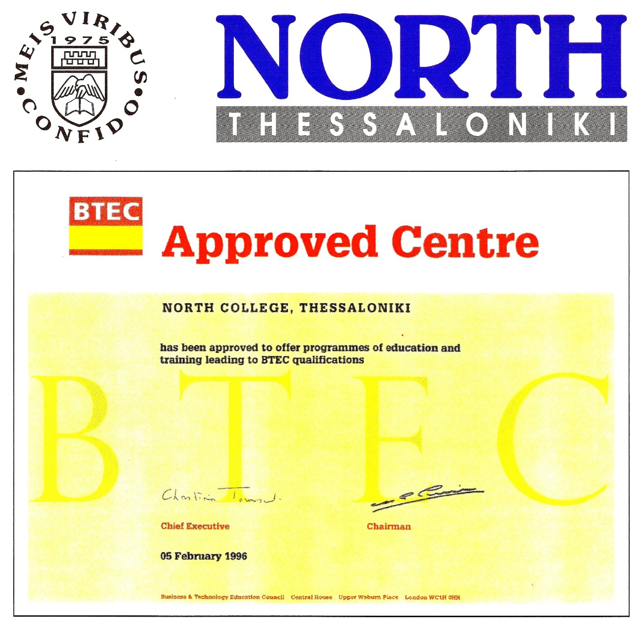 North College Thessaloniki BTEC Approved Center Certificate 1996 (North College of Thessaloniki ceased its operation in 2009 due to Greek economic crisis, after 34 years in Independent Higher Education in Greece).